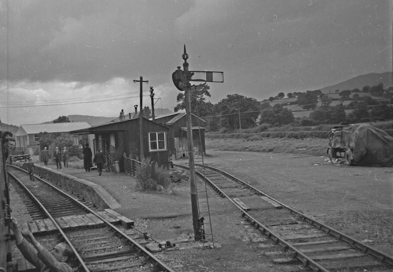 Llanrhaidr ym Mochnant station